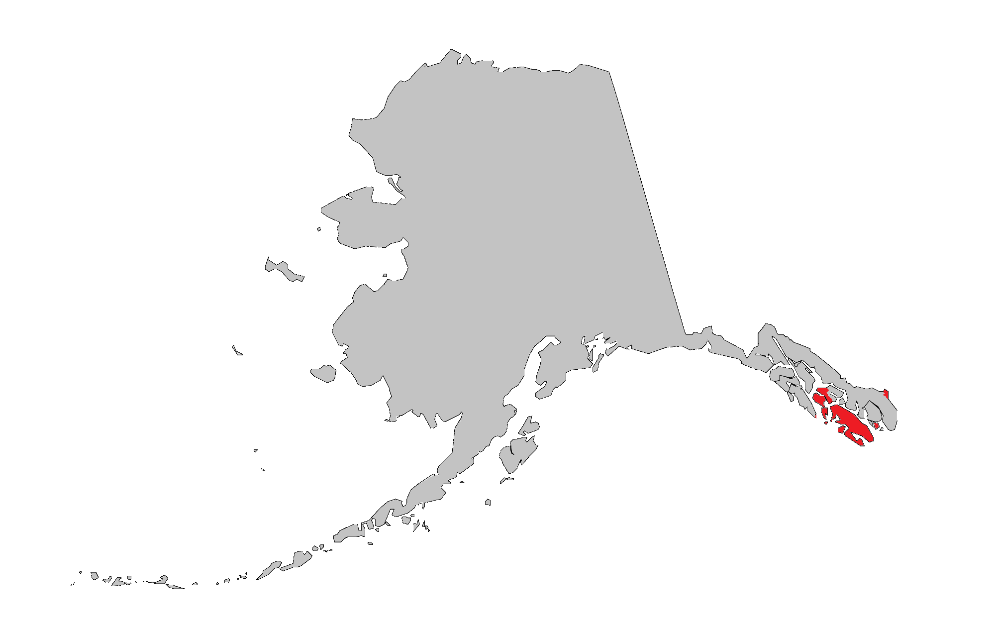 Prince of Wales-Hyder Census Area in Alaska, as it is after border changes in 2013.